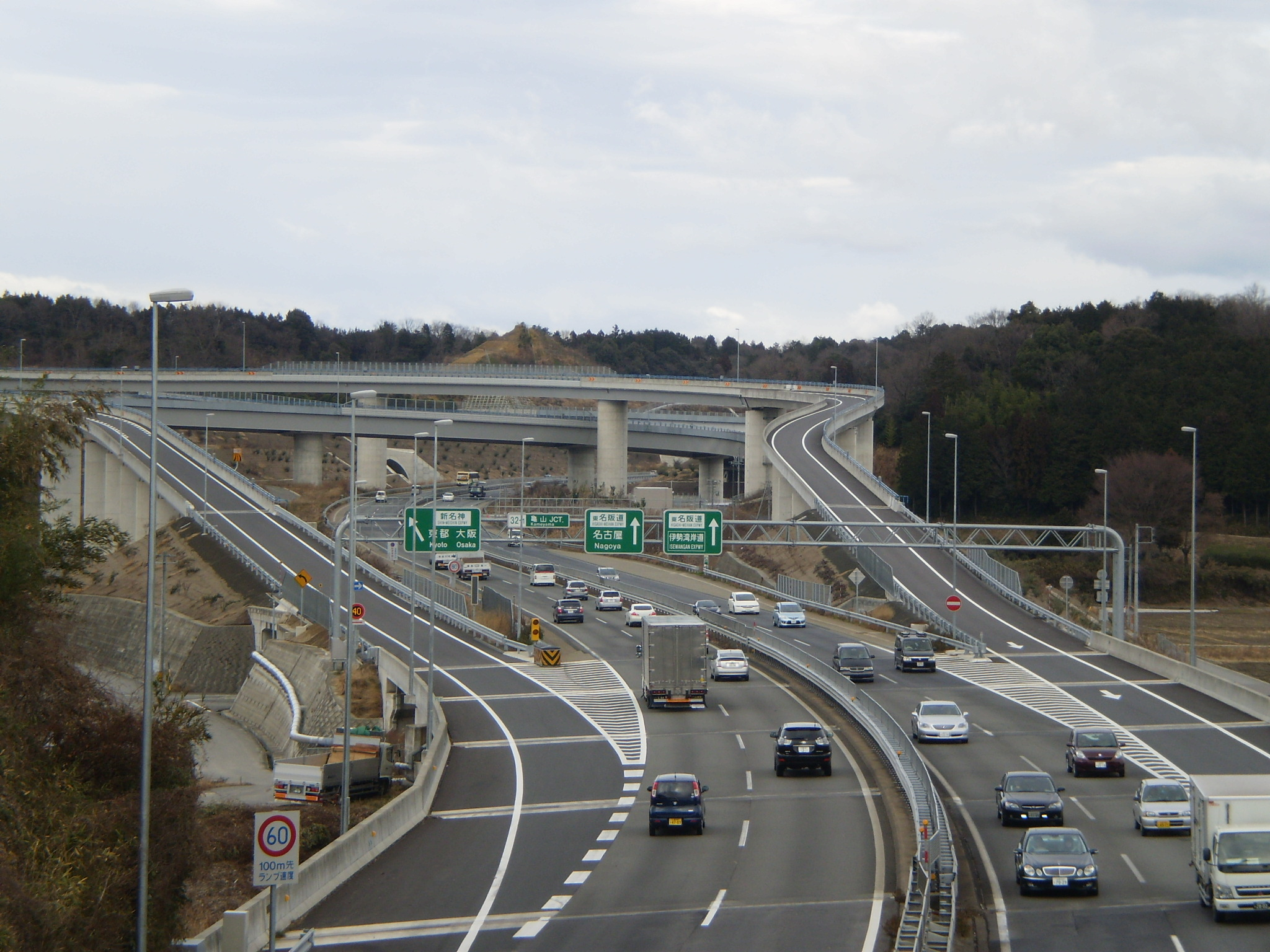 Kameyama Janction